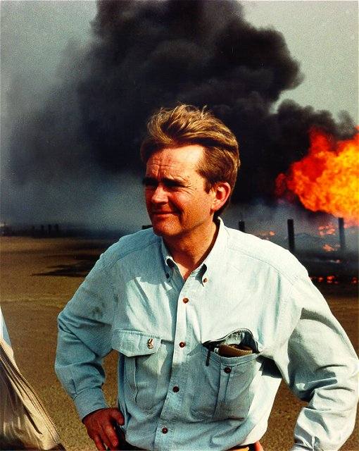 US EPA Administrator William K. Reilly assesses environmental damage of oil fires set by Iraqi forces in Kuwait. Read more about the eco terrorism in Kuwait.